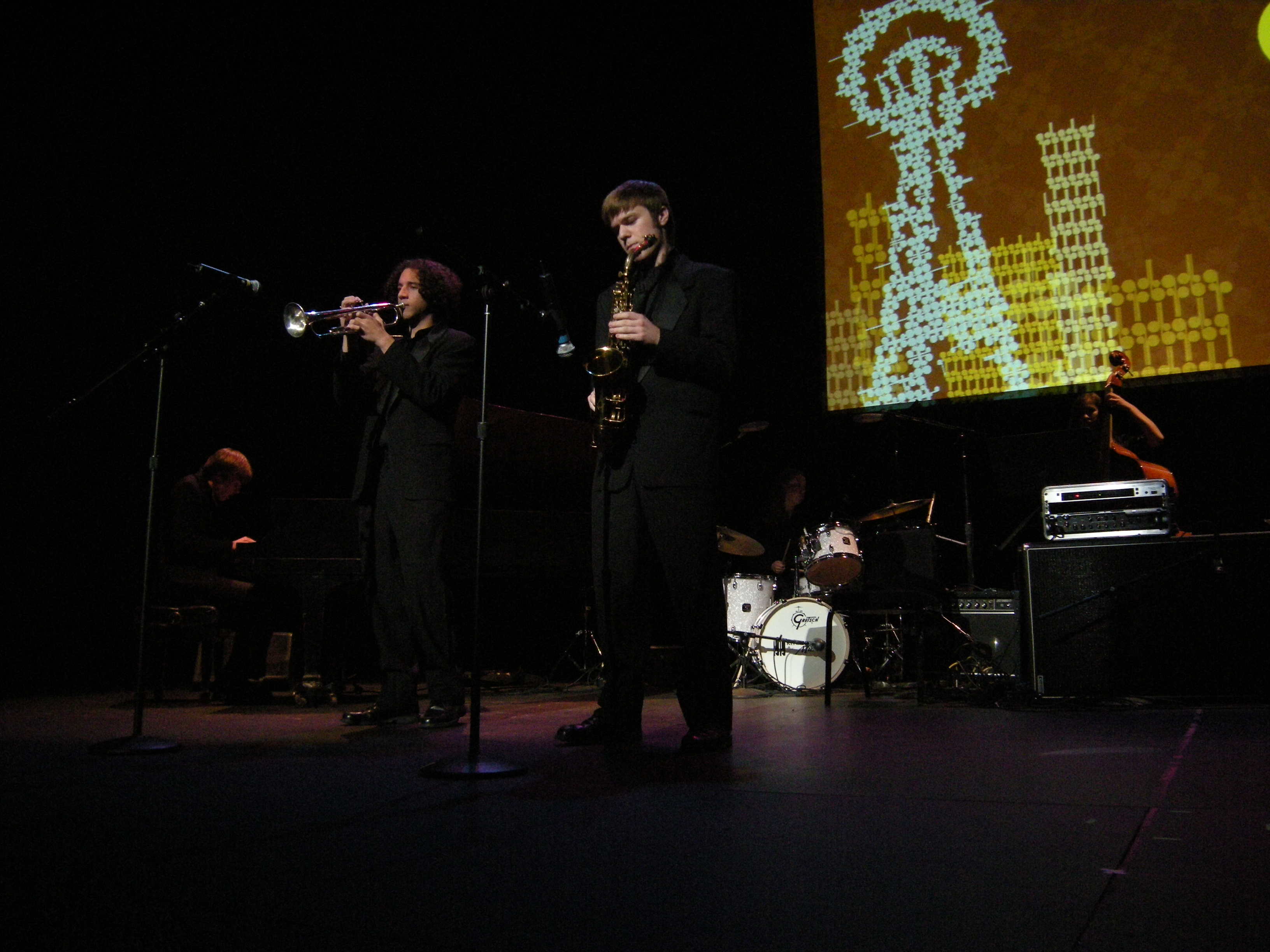 Garfield High School Jazz Quintet performing at the launch of "Seattle, City of Music", Paramount Theater, Seattle, Washington.